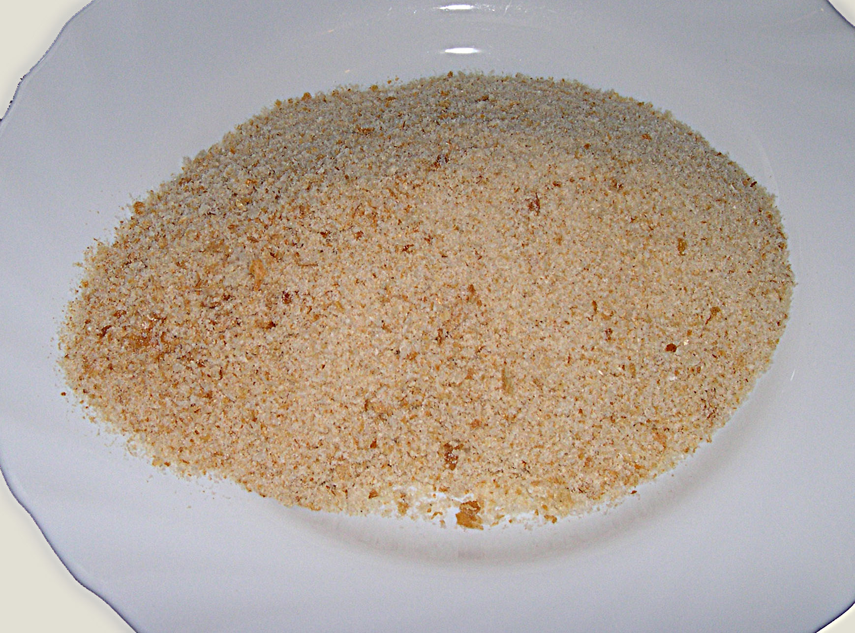 White bread crumbs